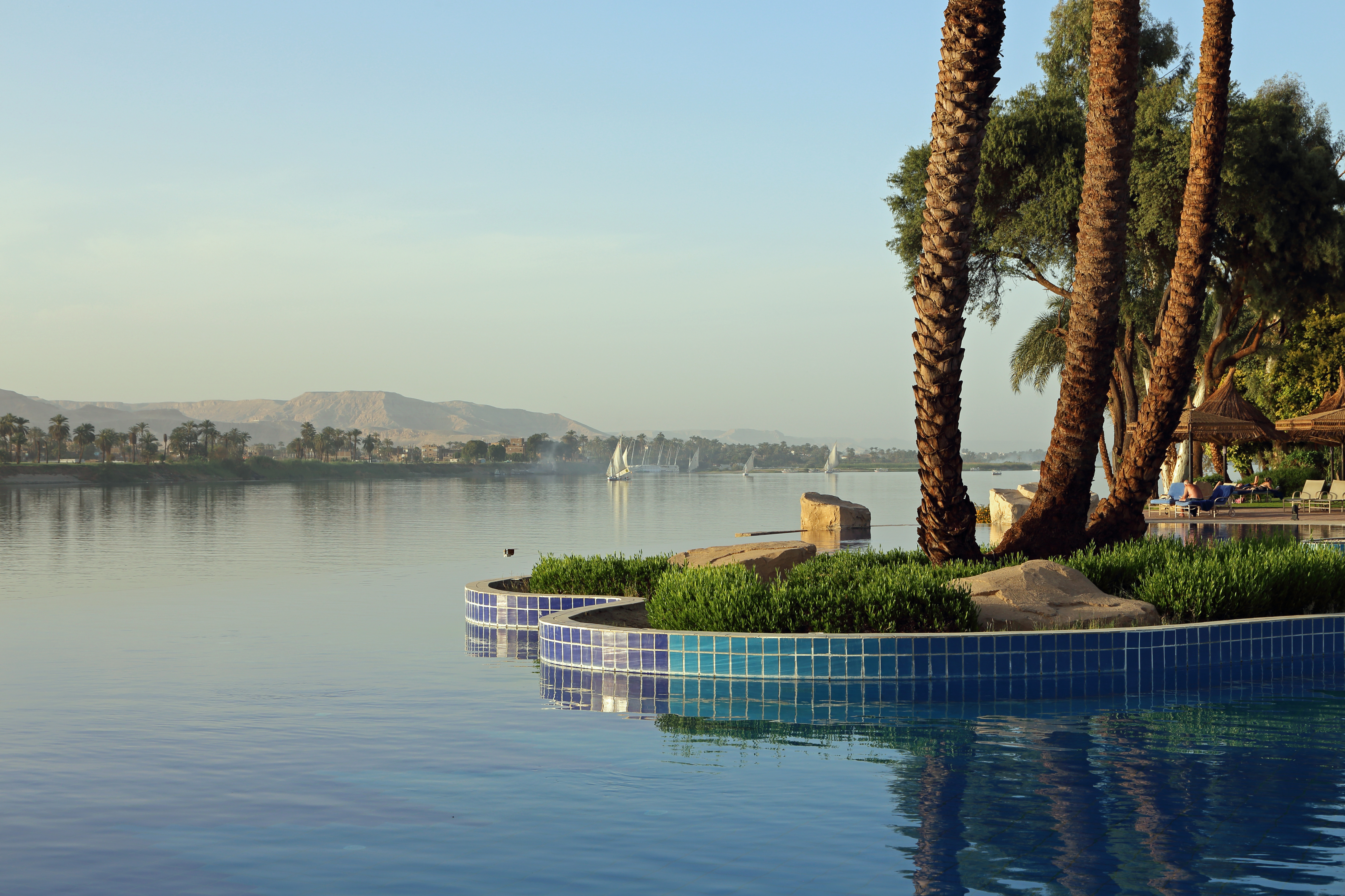 Infinity edge pool at the Jolie Ville hotel in Luxor (Egypt), with the Nile in the background